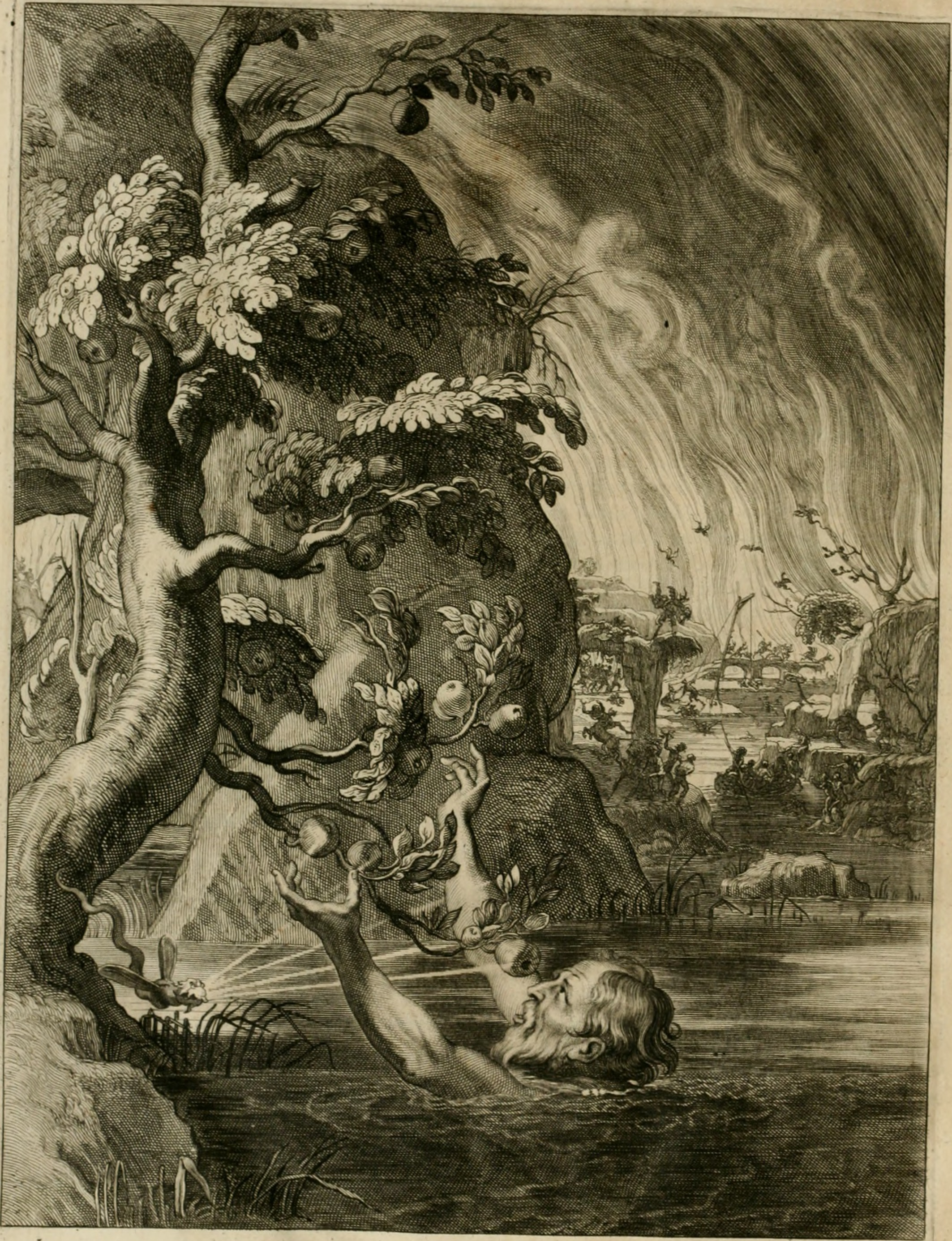 Title: Tableaux du temple des muses : tirez du cabinet de feu Mr. Fauereau, conseiller du roy en sa Cour des aydes, & grauez en tailles-douces par les meilleurs maistres de son temps, pour representer les vertus & les vices, sur les plus illustres fables de l'antiquité Year: 1655 (1650s) Authors: Marolles, Michel de, 1600-1681 Bloemaert, Cornelis, 1603-1692 Diepenbeeck, Abraham van, 1596-1675 Brebiette, Pierre, 1598?-1642 Langlois, Nicolas, 17th cent Subjects: Favereau, Jacques, 1590-1675 Mythology, Classical, in art Painting, European Publisher: A Paris : Chez Nicolas L'Anglois, ruë Sainct Iacques, aux Colomnes d'Hercule Text Appearing Before Image: peine des mc-•* chants, les enuoycaufond du Tartare mal-heureux. Et plus bas. Enceregar- dant de tous coftez, apperceut fous vne roche à main-gauche vne forterelfc enfermée dvn triple mur que le rapide Phlcgeton enuironne de fcs flots allumez, où ce fleuue du Tartare fait beaucoup de bruit contre les cail-•* loux quil poufle auec vne extrême impctuofité. La porte de cette place sa- uance dvn front fuperbc à caufedcs colomncsdc diamant qui lafoùtiennent• de chaque cofté;^il ny a* oint de force humaine, ny mcfmc de puiflancedcs*• Dieux capable dWcbranlcr. Vne tour de fer sy eleuc dans les airs, & Tyfiphone affife auec fa robe fanglante, y veille iour & nuidt pour en garder lentrée. De là s^ntcndoient les gcmiflcmcns & le fon des coups quifaifoient des blclTeurcs■ cruelles, Onpouuoitaifémcntdifcernerle bruit du fer &: des chaînes traînées.Nous dirons fur lautre Tableau, ce quil y a de refte fur ce fujet dans le fixié-mc iiure de lEncide. TANTALE. Text Appearing After Image: Tantale Homer.OdyfT.xi. .^^ ■427 7^ r3^* f^n^ ^Nnkj P^f w i -fi